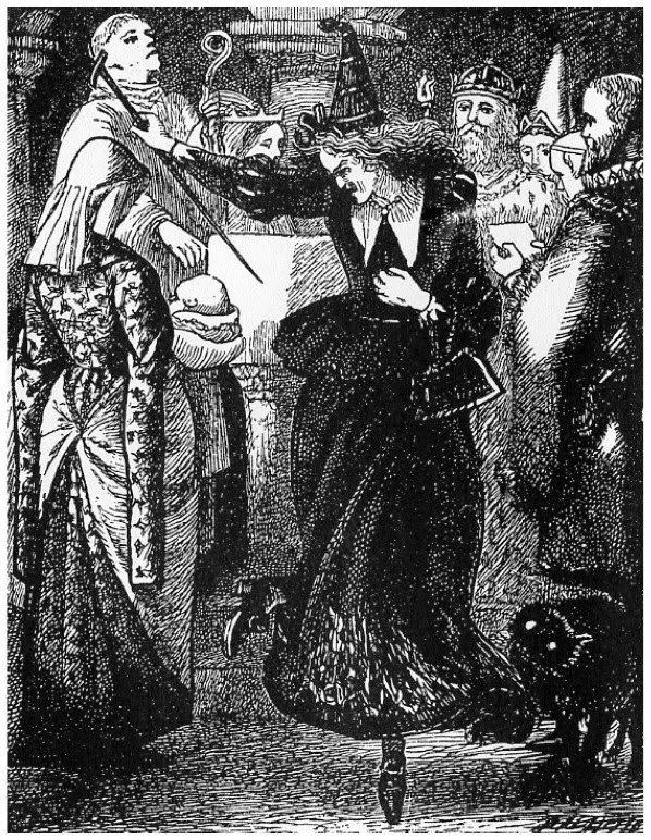 Arthur Hughes, The light princess